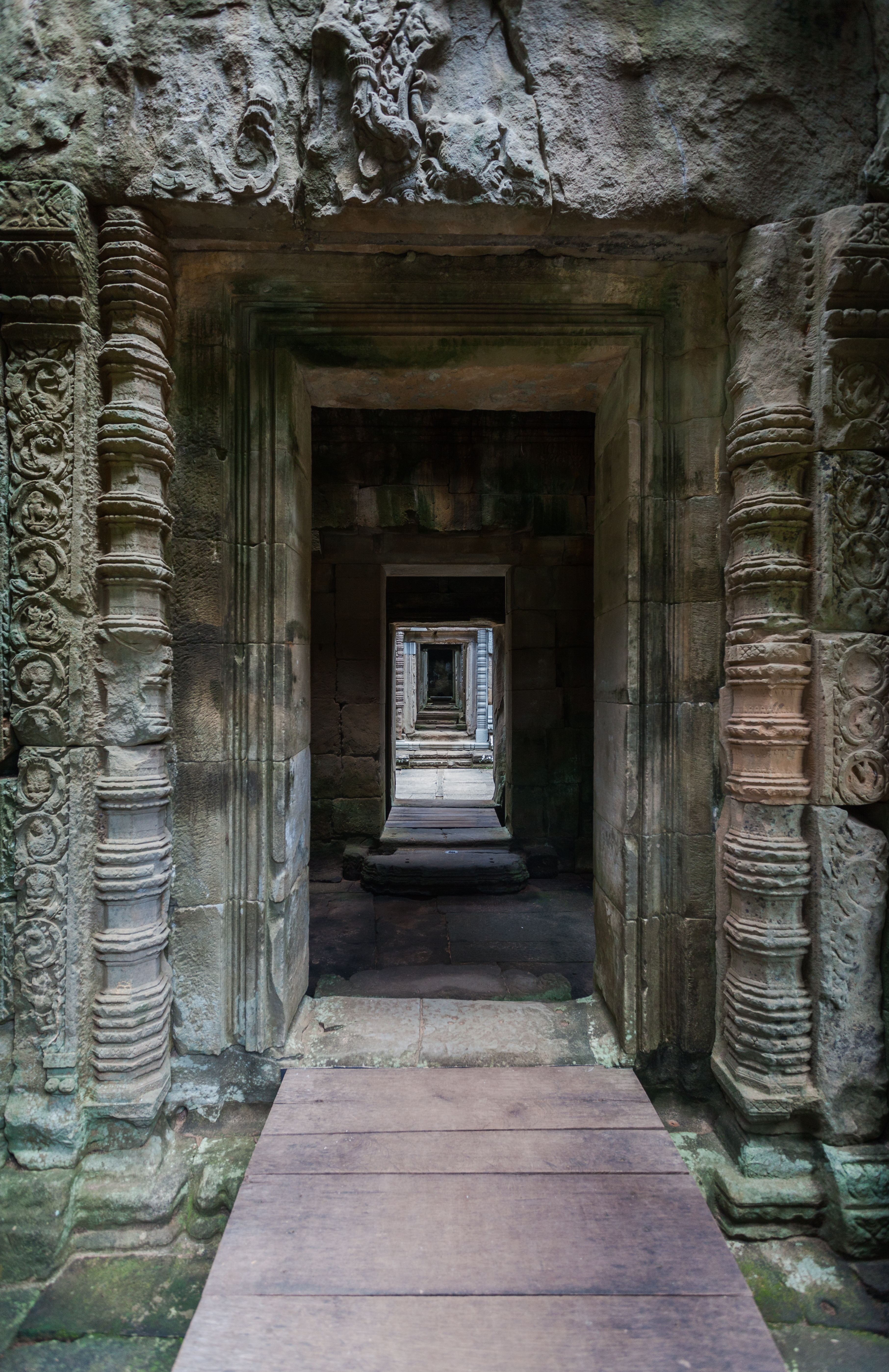 Chao Say Tevoda, Angkor, Cambodia